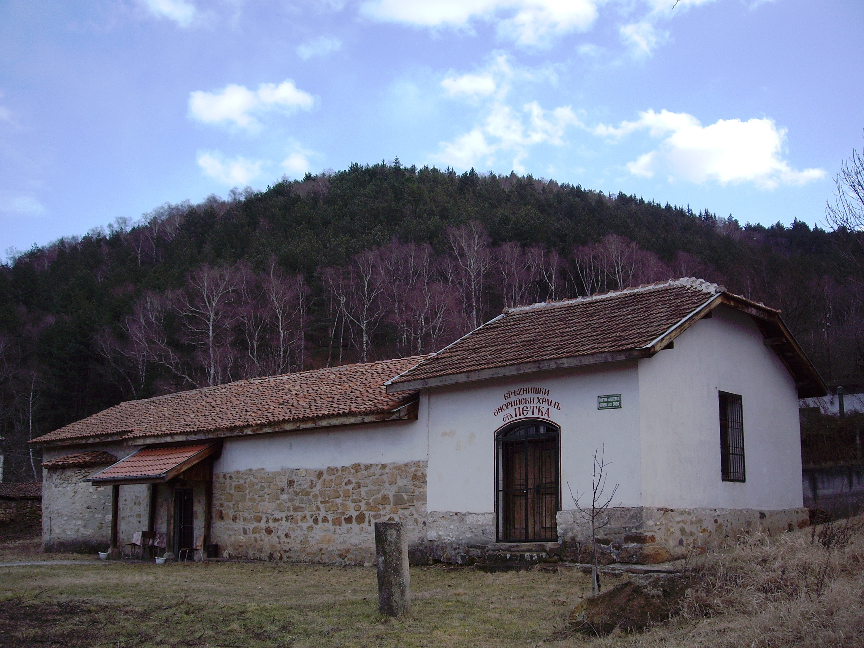 The old church "St. Petka" in Breznik, Bulgaria